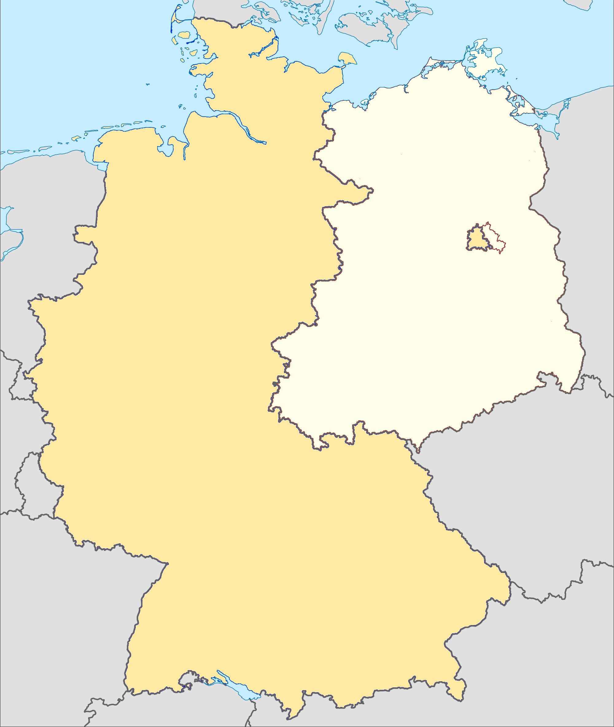 Original authors were TUBS and ZyMOS on , file there is Derivative work, allowed by Creative Commons Attribution-Share Alike 3.0 Unported license. For use as historical location map (Cold War era).